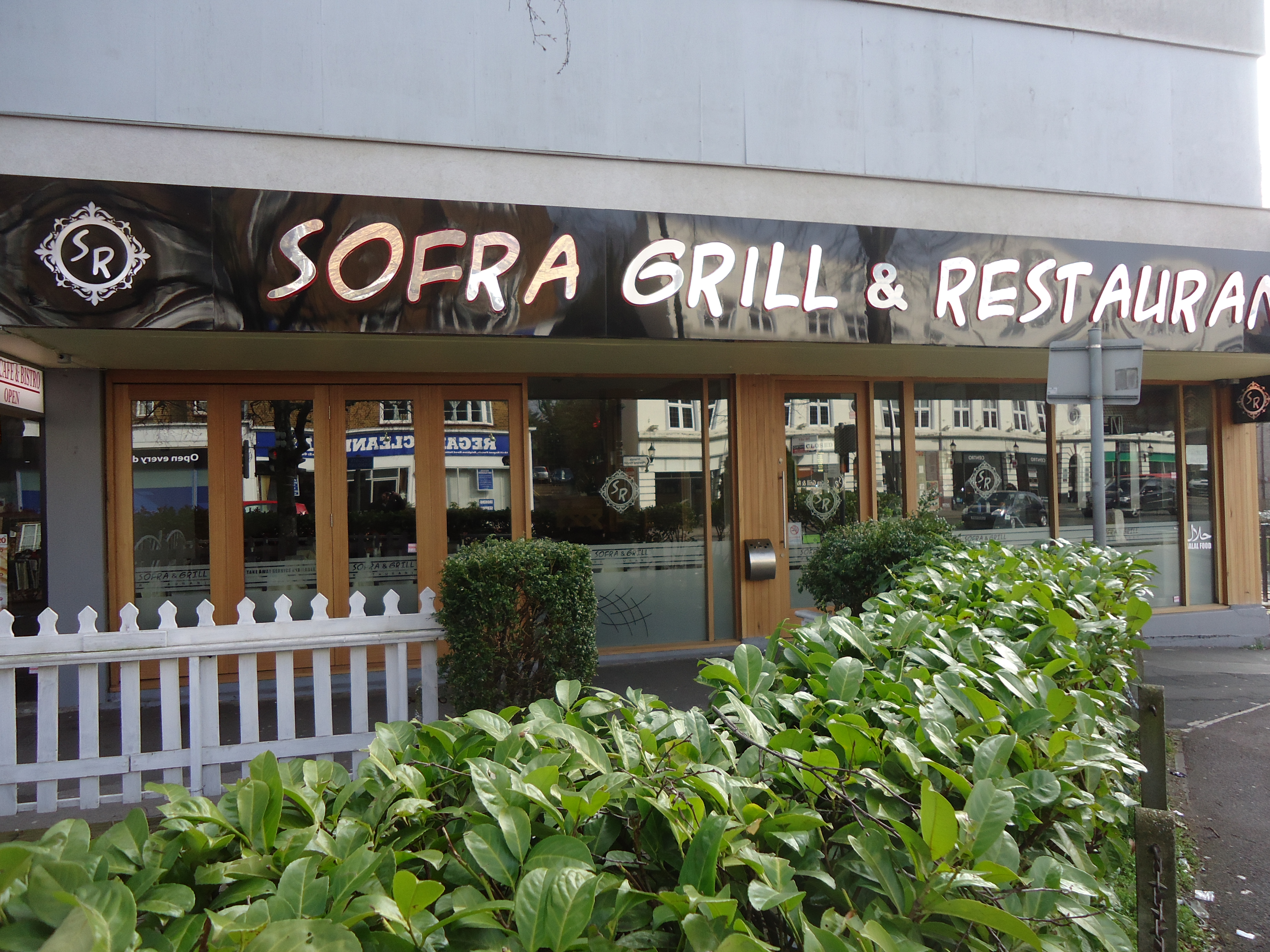 Sutton's Turkish restaurant